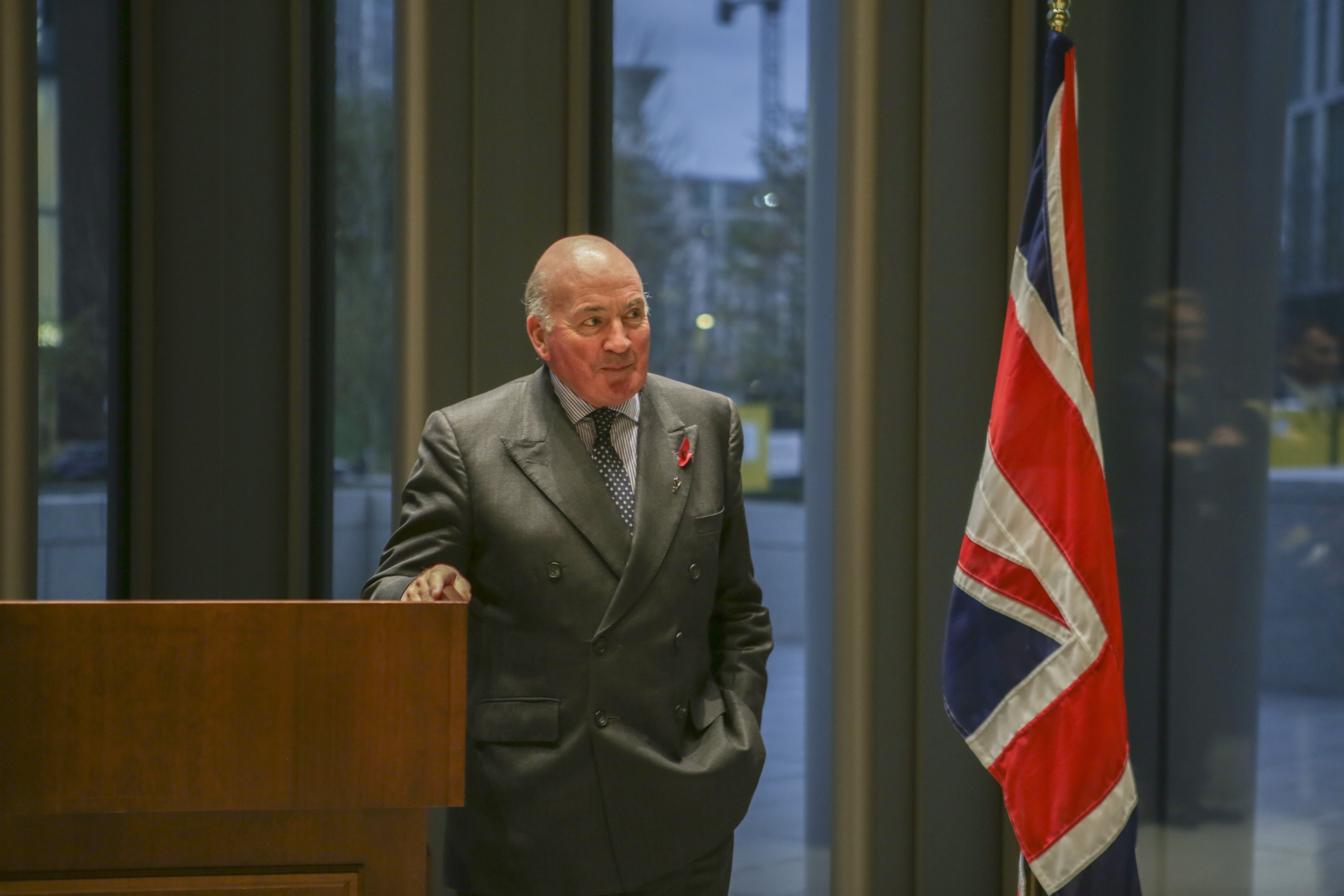 Richard Dannatt, There But Not There Unveiling at the U.S. Embassy, London October 2018